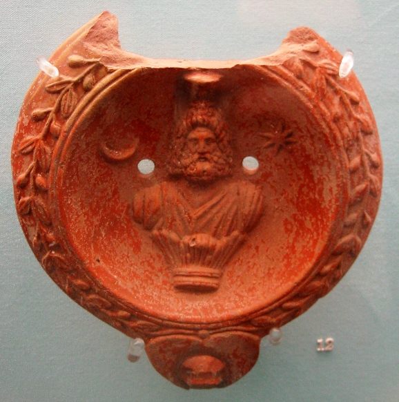 Roman terracotta samian ware oil lamp, representing Serapis. British Museum. Personal photograph 2005.